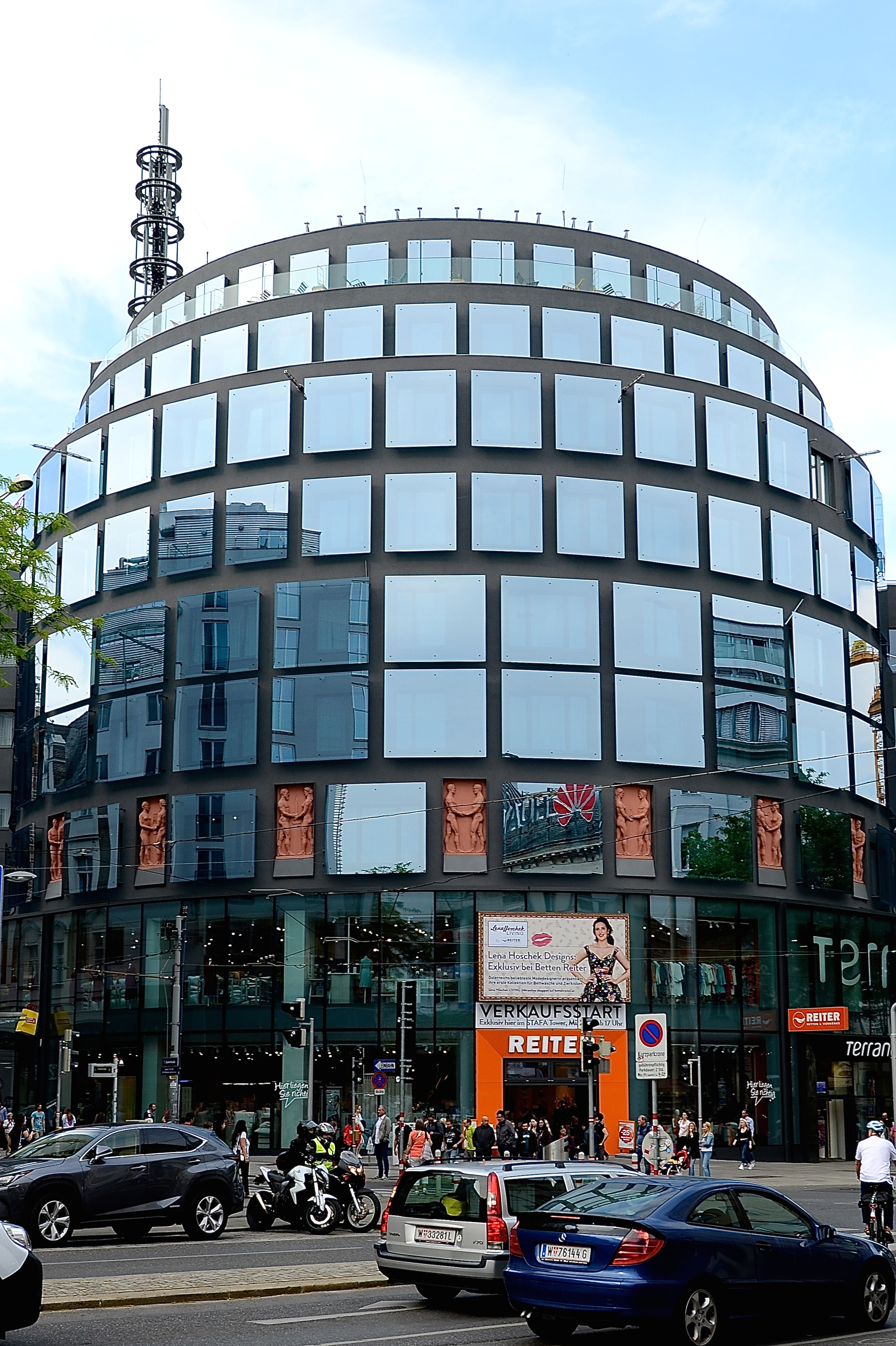 "Stafa Tower", formerly department store "Stafa", Mariahilfer Straße 120, Vienna's 7th district